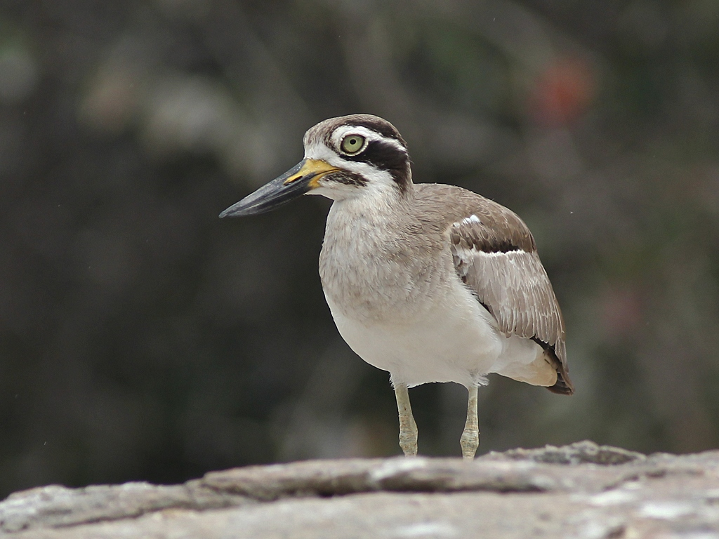 The Great Thick-knee is a large wader and has a massive 7 cm bill with the lower mandible with a sharp angle giving it an upturned appearance. It has unstreaked grey-brown upperparts and breast, with rest of the underparts whitish. The face has a striking black and white pattern, and the bill is black with a yellow base. The eyes are bright yellow and the legs a duller greenish-yellow. In flight, the great thick-knee shows black and white flight feathers on the upperwing, and a mainly white underwing. Sexes are similar, but young birds are slightly paler than adults.